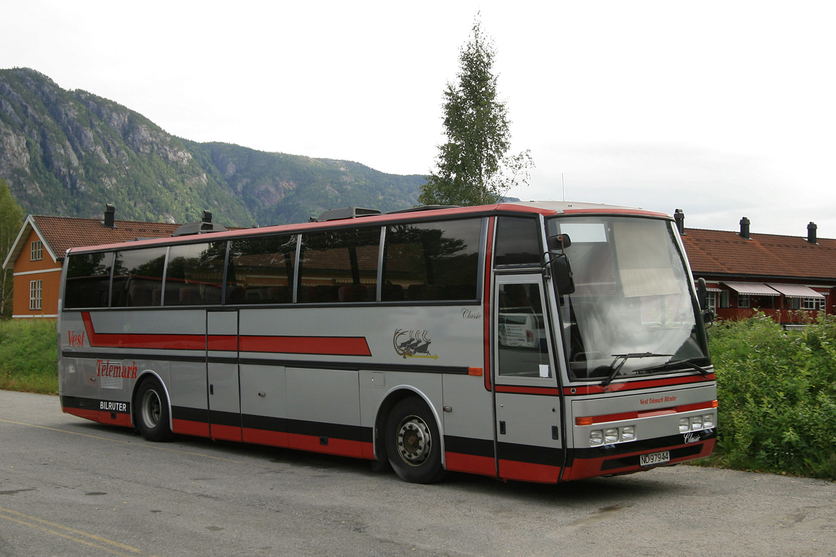 Scania Classic from Vest-Telemark Bilruter.